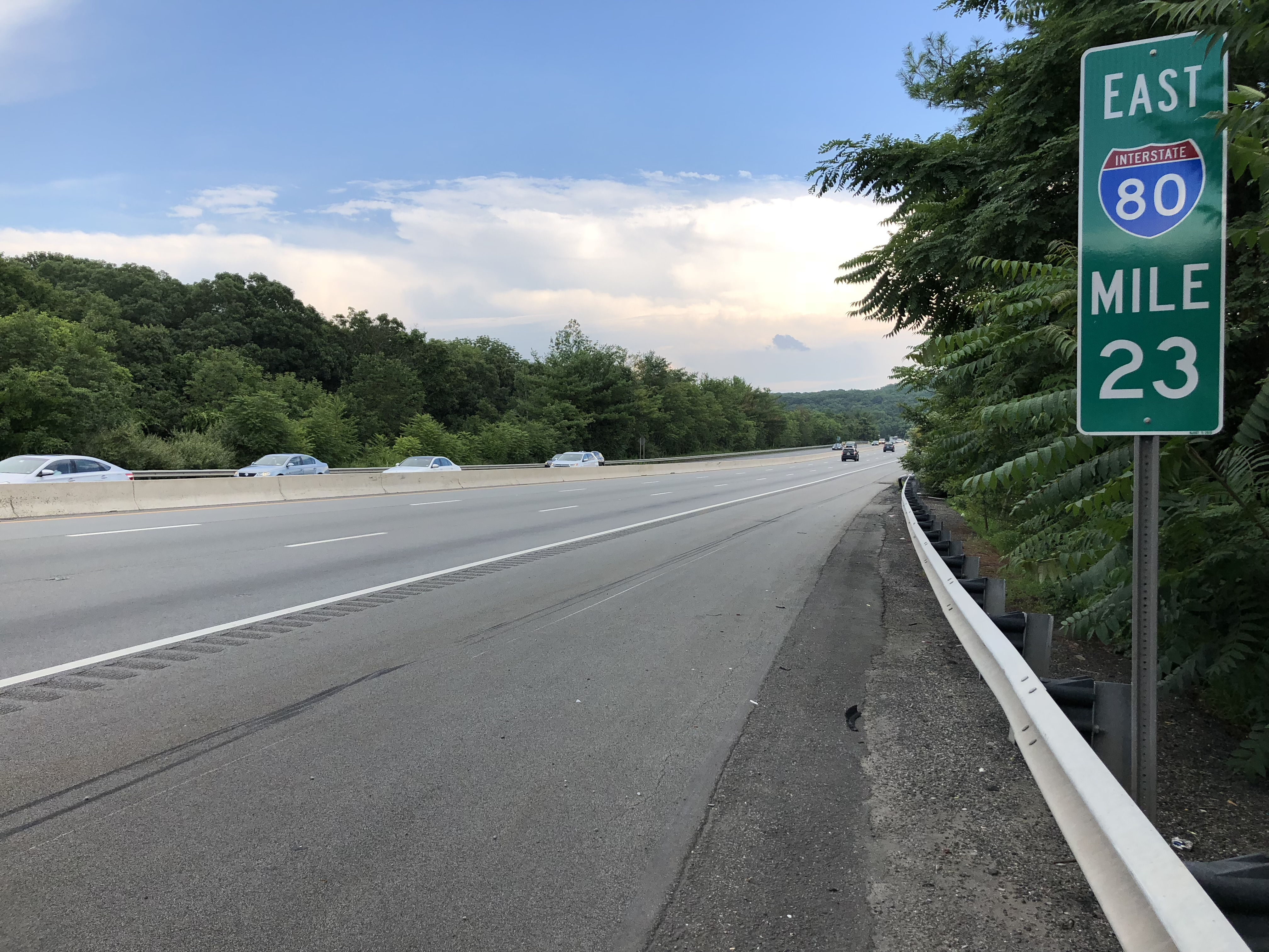 View east along Interstate 80 between Exit 19 and Exit 25 in Byram Township, Sussex County, New Jersey